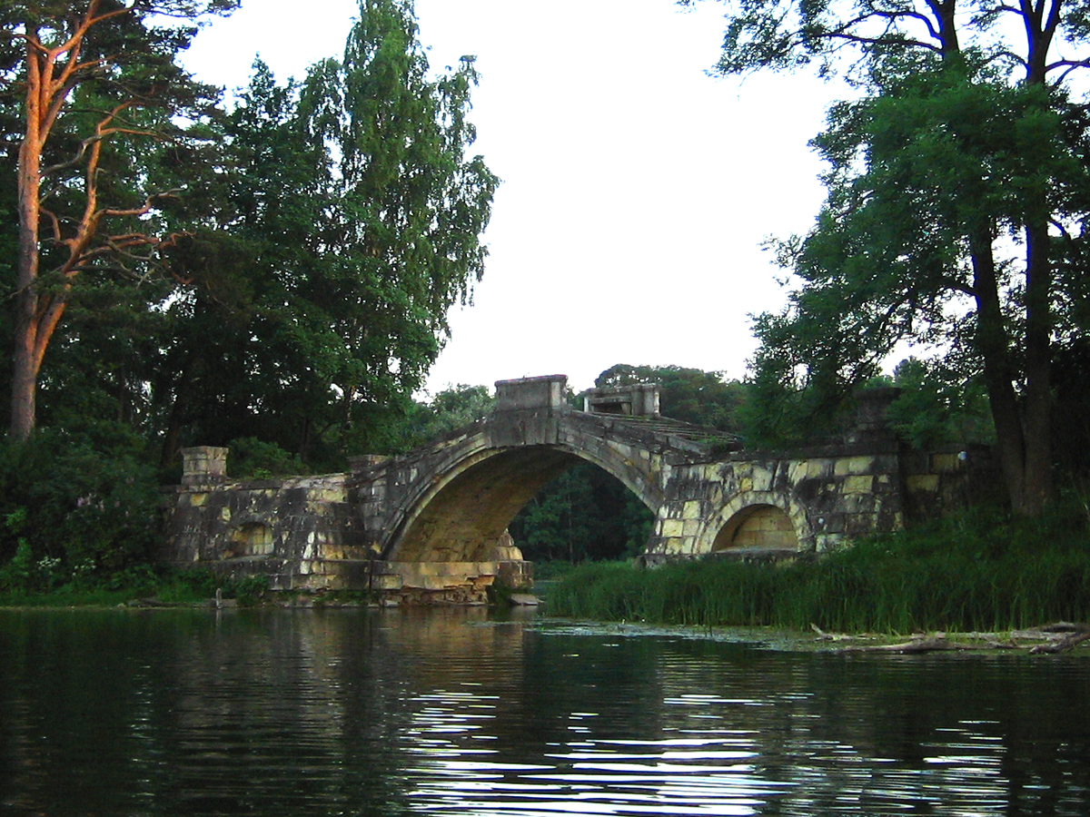 Gorbaty bridge in Gatchina